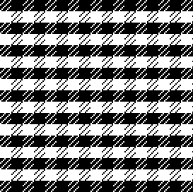 Pepita pattern